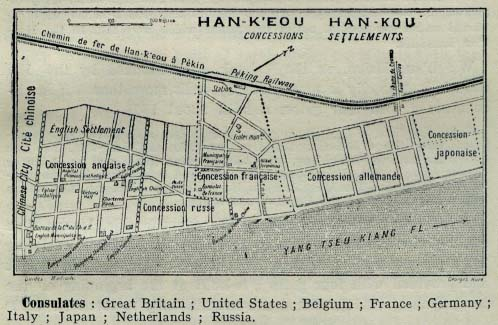 Map of Hankow (Hankou, in Pinyin), as of 1912. The map shows the borders of the French, British, Russian, German, and Japanese concessions in Hankou.